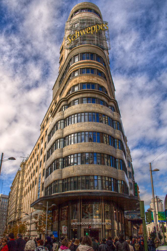 Edificio Carrión (building) in Madrid (Spain).